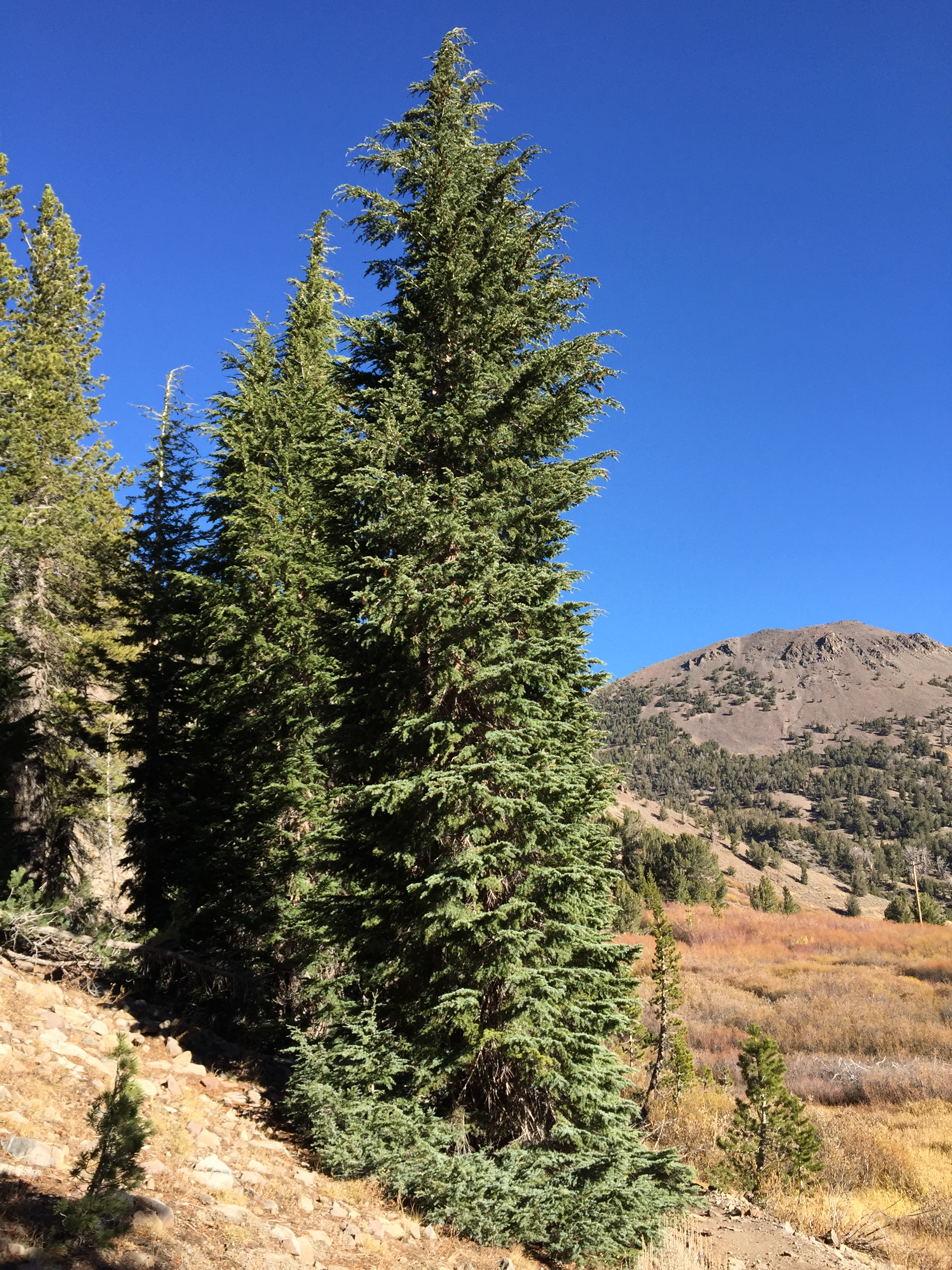 View of Mount Rose and a Mountain Hemlock along the Mount Rose Trail about 2.5 miles northwest of Mount Rose Summit, Nevada